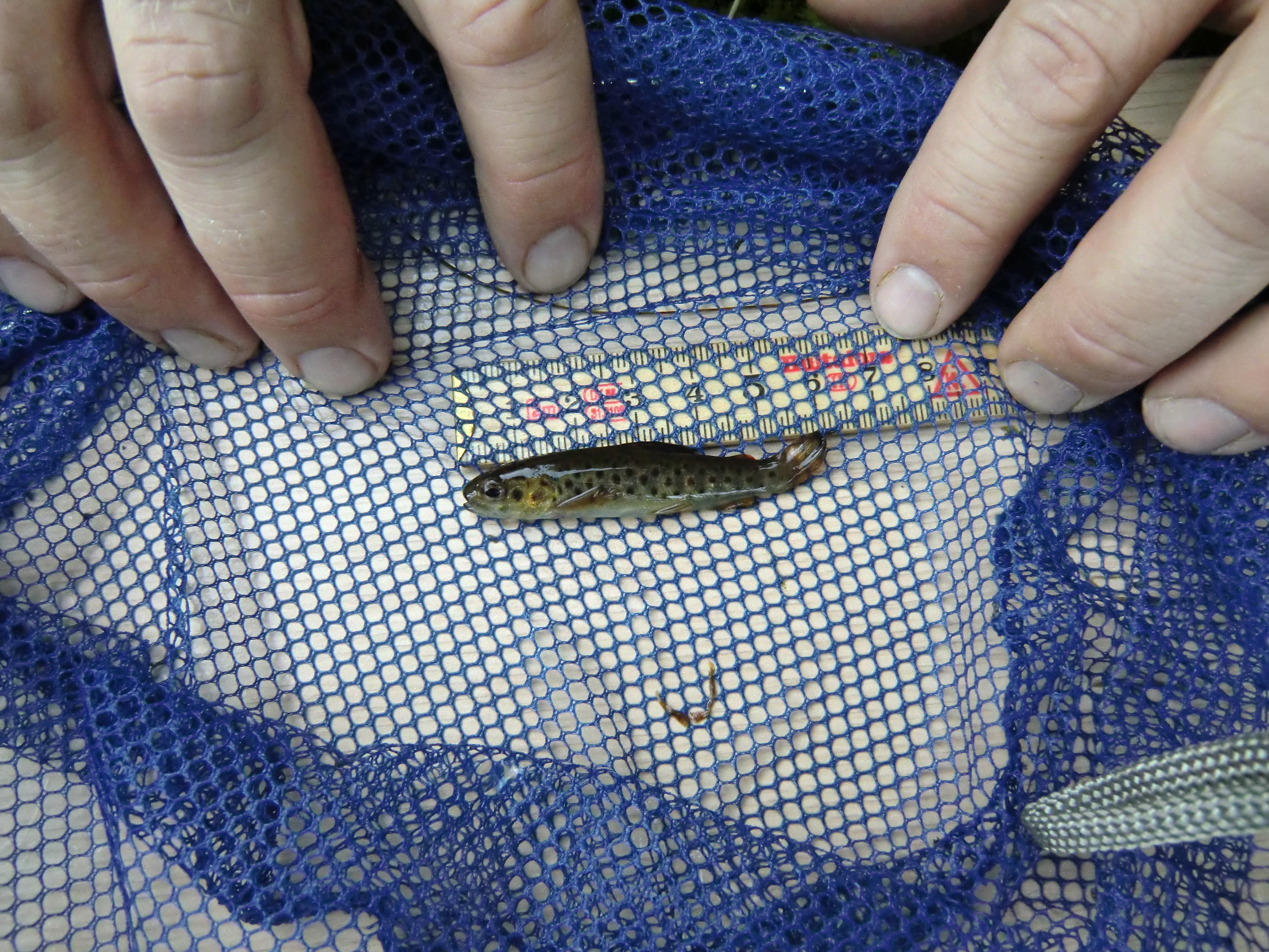 Trout (Salmo trutta) after the first summer, 6 cm long, 0+ years old in Värmland, Sweden.